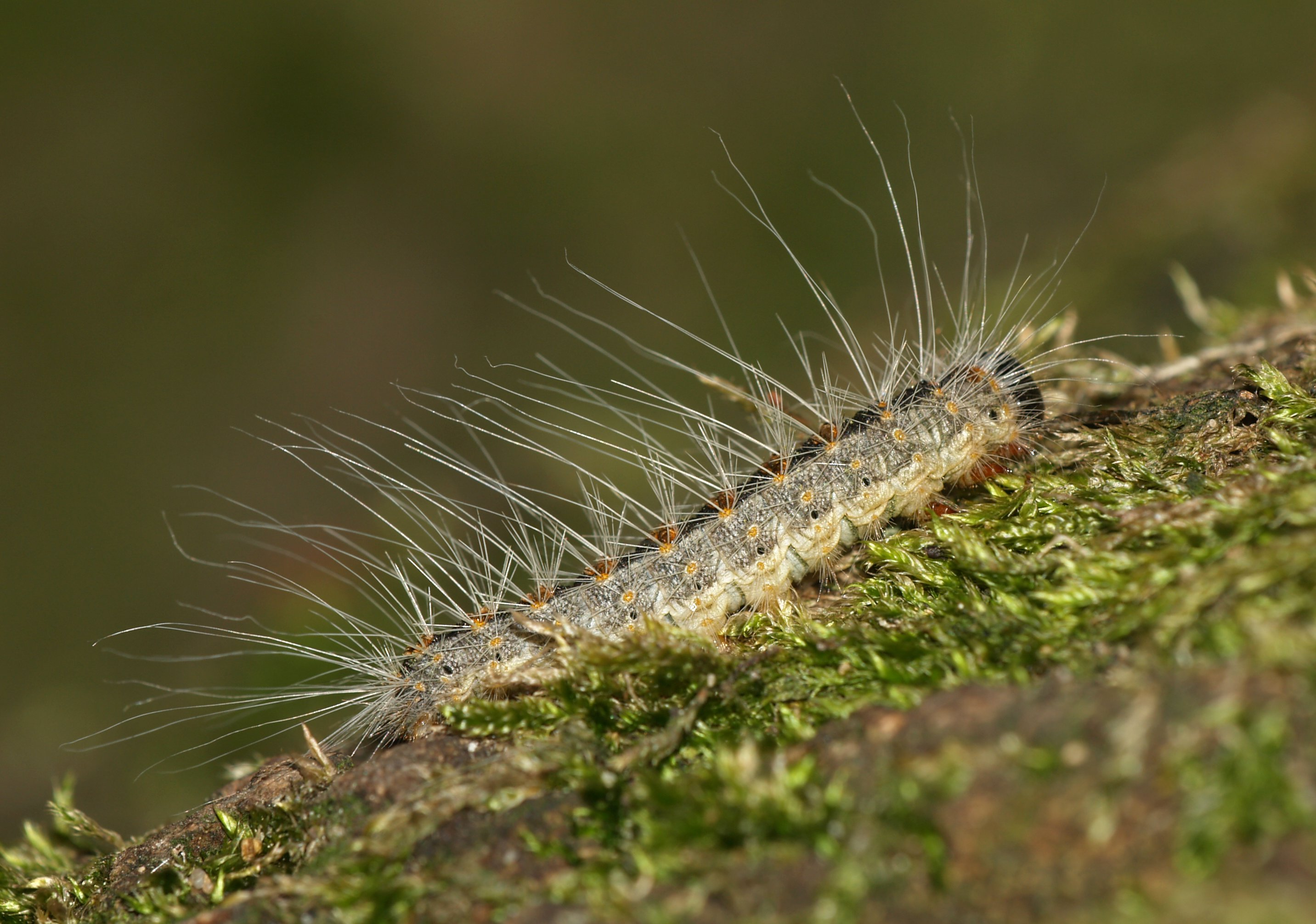 Caterpillar of Thaumetopoea processionea, on the bark of an oak tree near Hinsbeck, Germany.